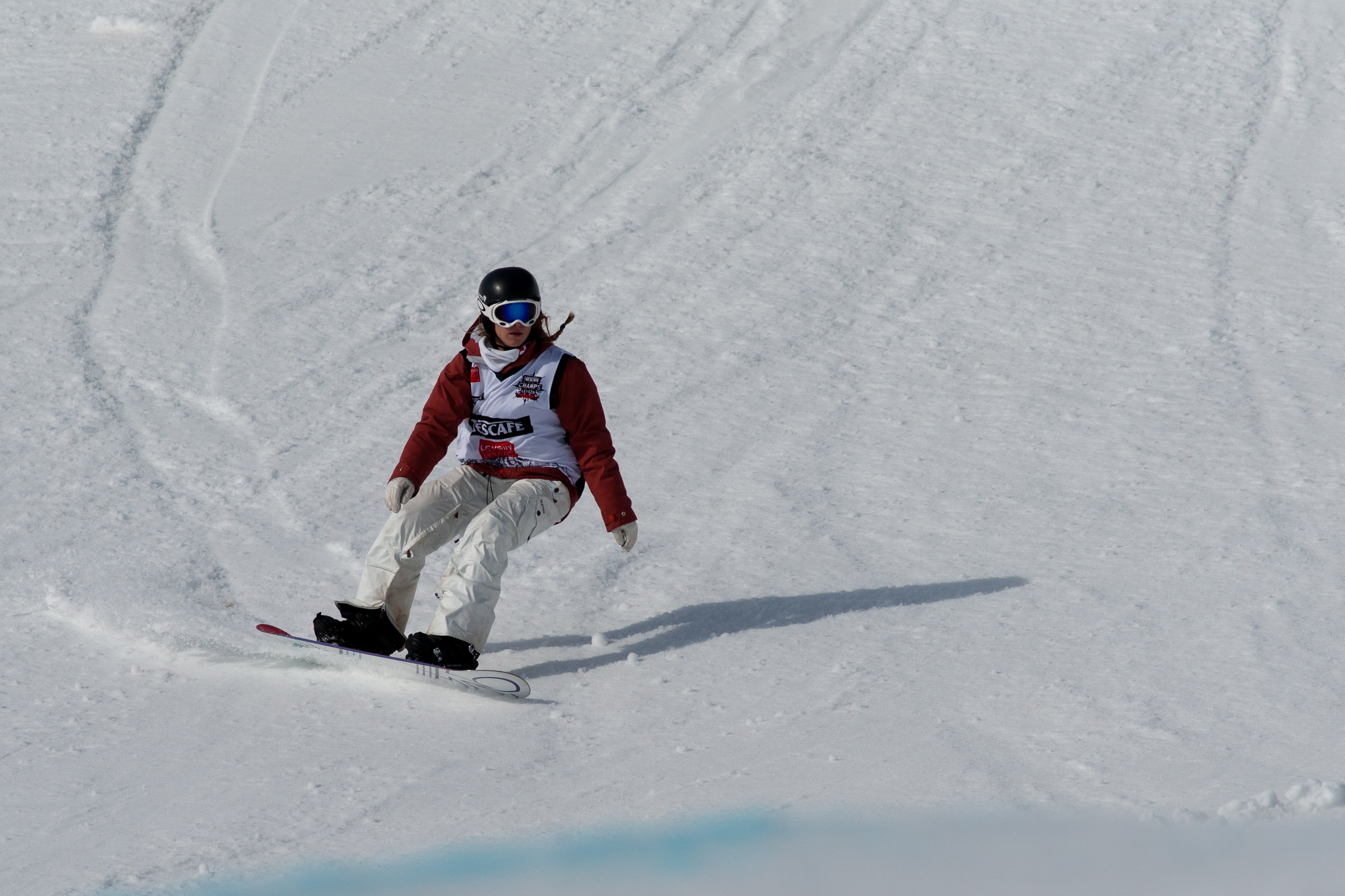 The making of this document was supported by Wikimedia CH. (Submit your project!) For all the files concerned, please see the category Supported by Wikimedia CH. 20th Leysin Nescafe Champs, 8th - 13th February 2011